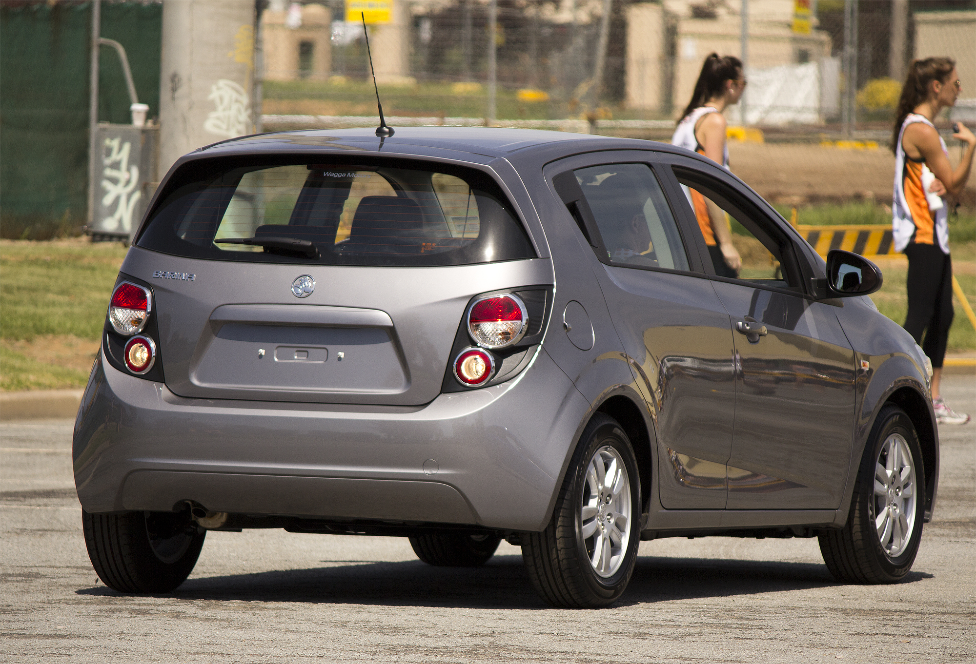 2011 Holden TM Barina hatchback photographed in Wagga Wagga, New South Wales.